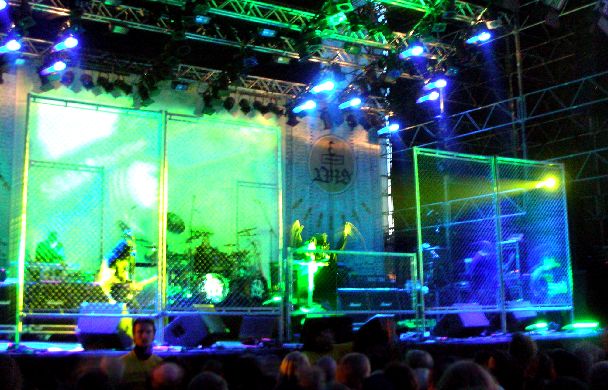 Industrial metal band Ministry performing during the 2008 Sweden Rock Festival